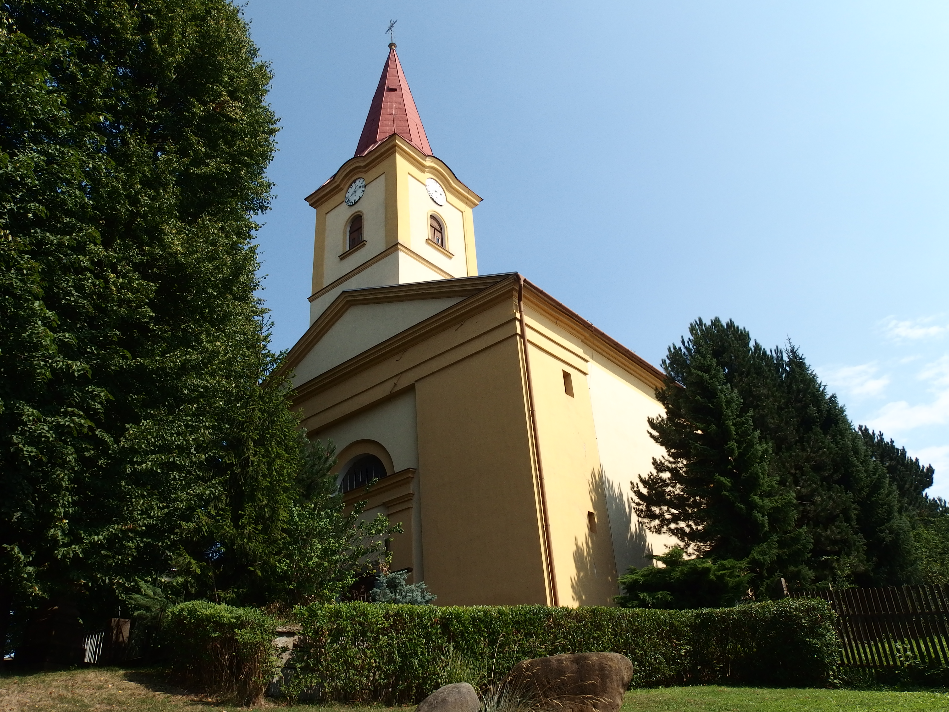 Paršovice, Přerov District, Czech Republic.